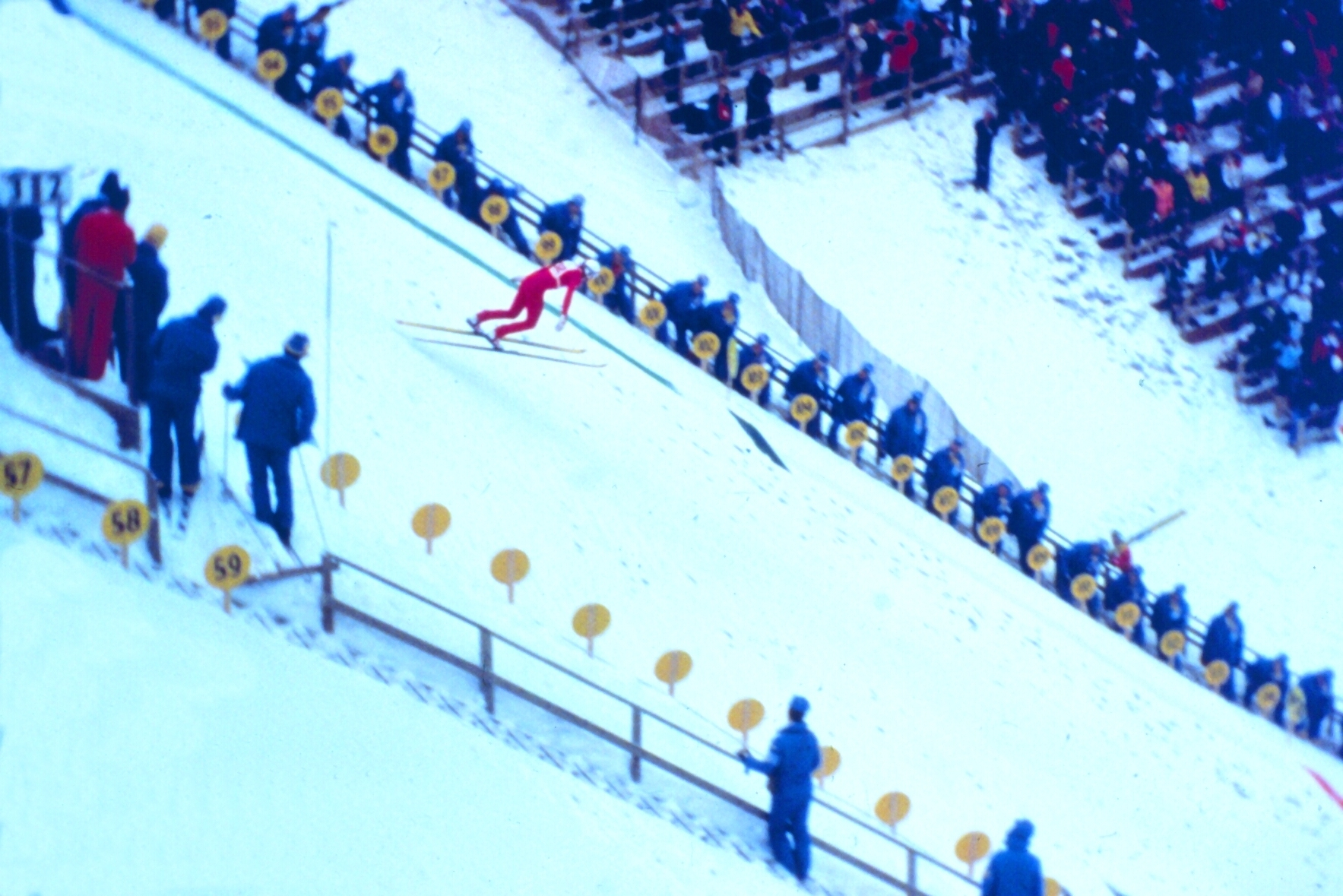 Ski jumping at the 1980 Winter_Olympics.